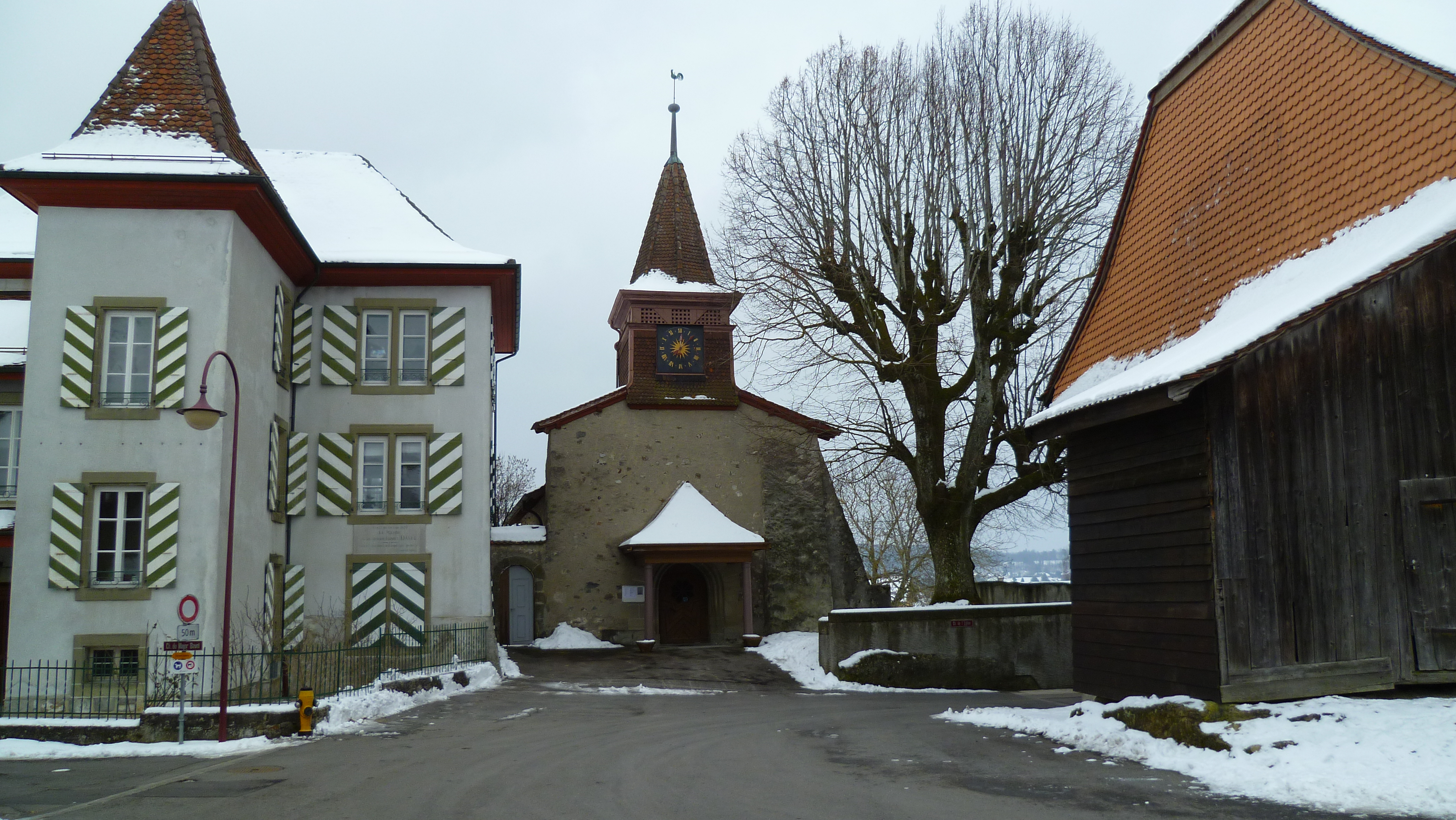 House of Abraham Davel at the right and church churg of Morrens in the center.